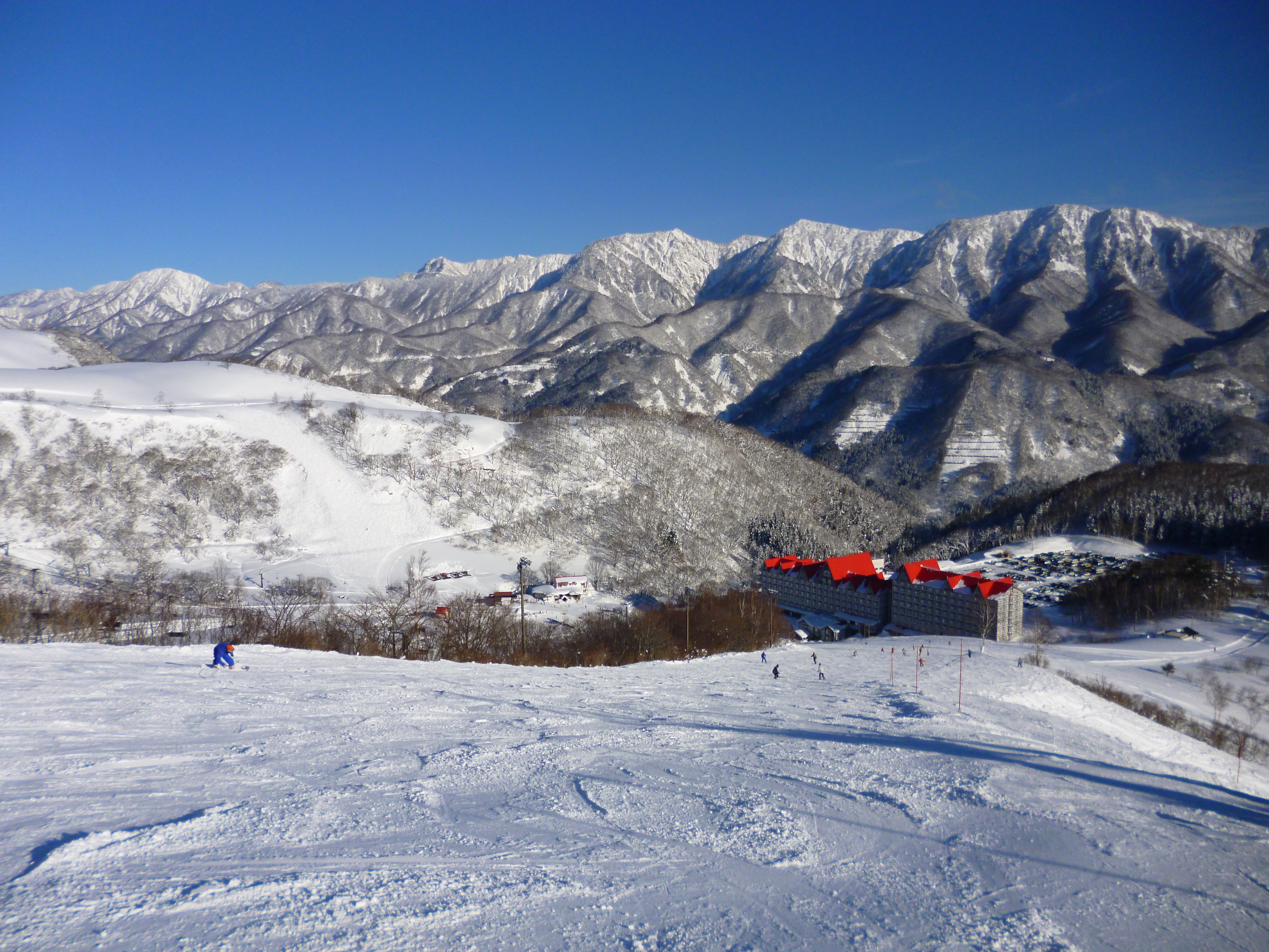 Hakuba Cortina Kokusai Ski Resort in Otari, Nagano, Japan.